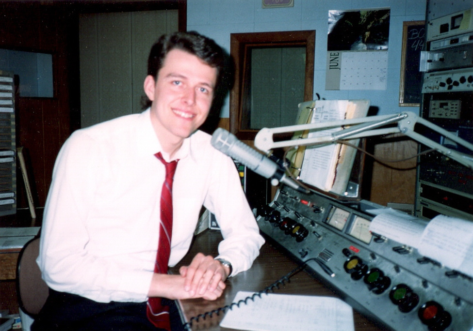 I made this myself while an employee of the station in 1994.